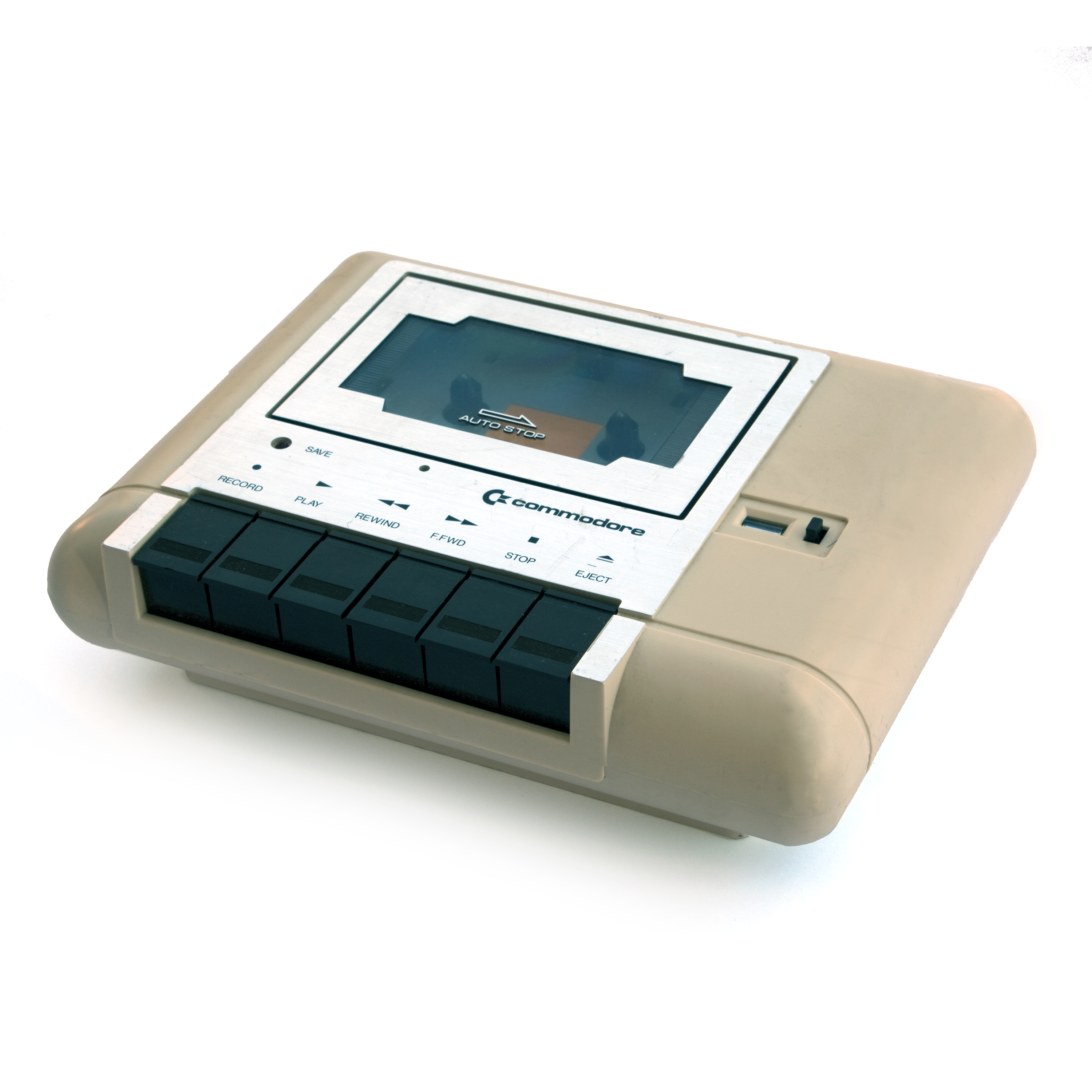 Commodore 1530 C2N-B Datasette as used on the VIC-20